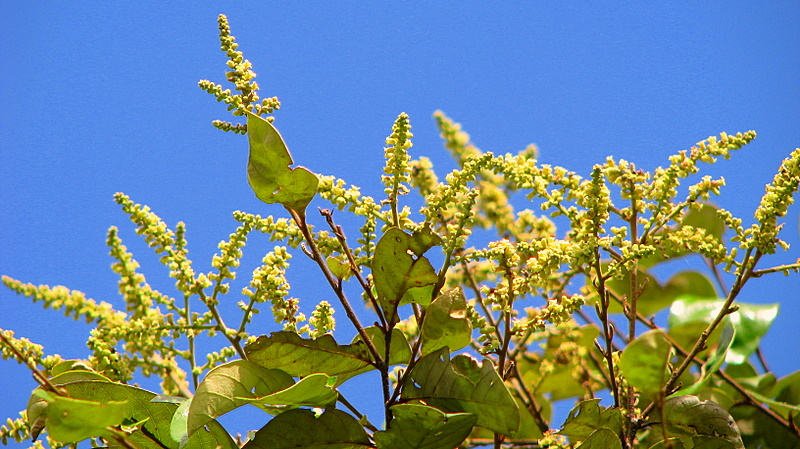 Licania nitida Hook. f.